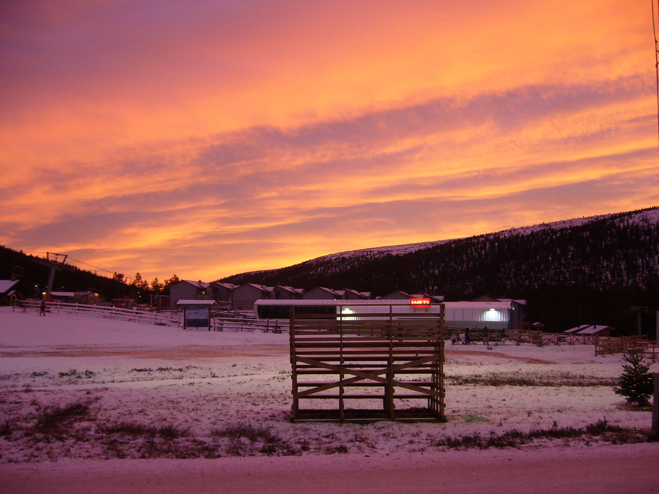 This picture is part of a series: Sunset and a skislope.JPG and Sunset in Sälen.JPG They are taken as a panorama, with 1 starting from the left.